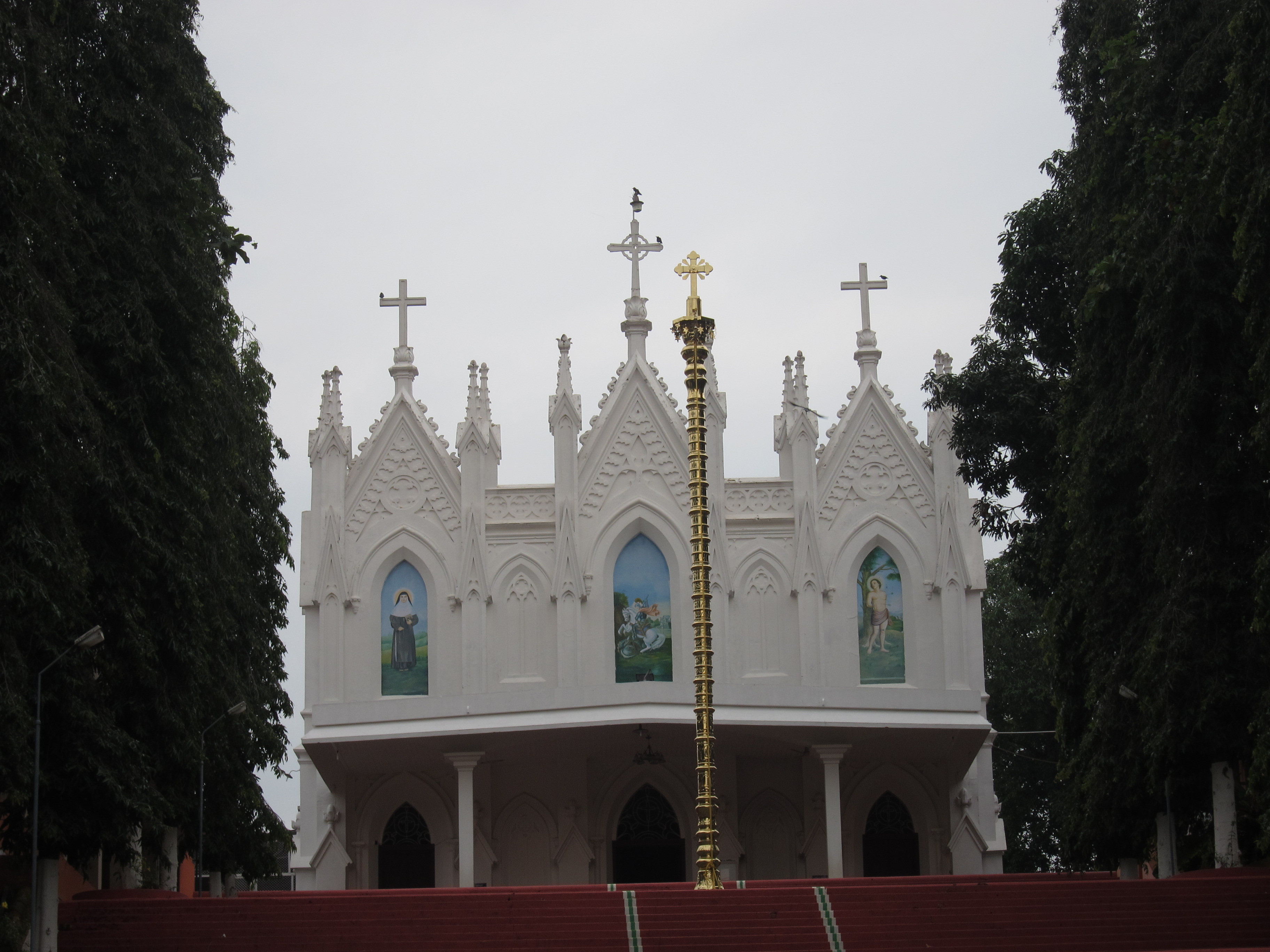 St: George Forane Church, Vazhakulam, Syro Malabar Catholic, Kothamangalam Diocese, Vazhakulam-Pandappilly Road, Muvattupuzha, Ernakulam District സെന്റ് ജോർജ് ഫൊറോന പള്ളി, വാഴക്കുളം, സീറോ മലബാർ കാത്തലിക്, കോതമംഗലം രൂപത, വാഴക്കുളം-പണ്ടപ്പിള്ളി വഴിയിൽ, മുവാറ്റുപുഴ, എറുണാകുളം ജില്ല